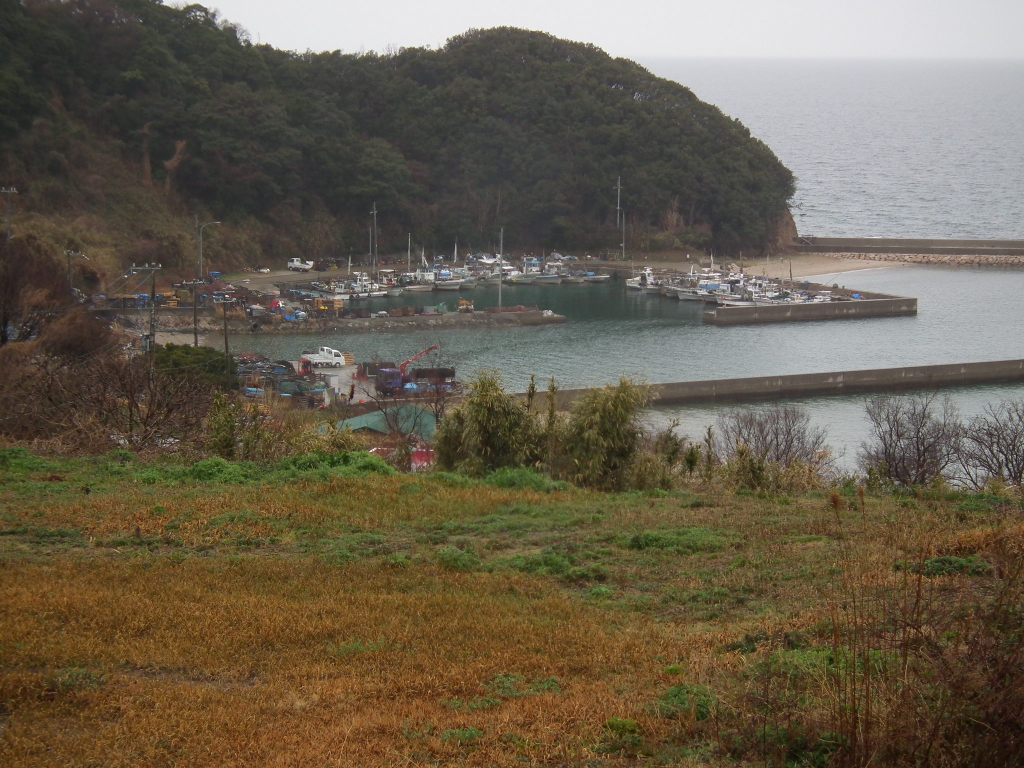 Funase,Sumoto-Hyogo Fishing port